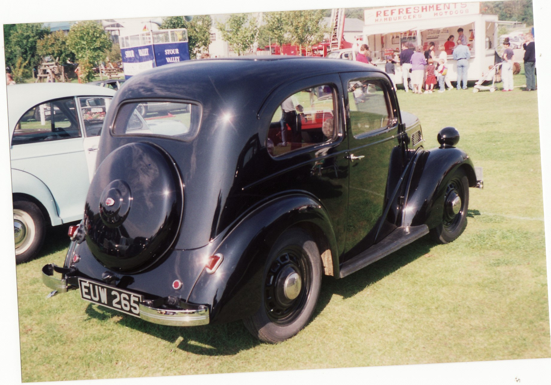 Ford Anglia E04A c.1939-48